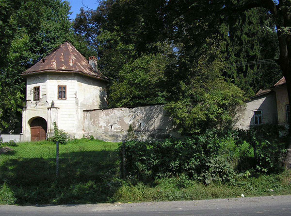 The Teleki-castle in Dolha/Dovhe (Zakarpattia), 2005